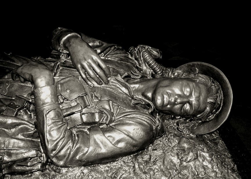 Sydney, St Marys Roman Catholic Cathedral, The Unknown Soldier by GW Lambert